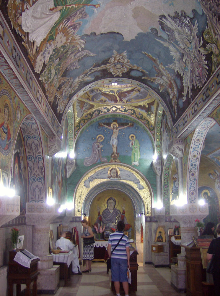 Chapel of Saint Parascheva of the Balkans in Belgrade (Kalemegdan)